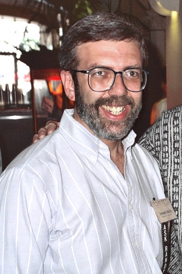 Leonard Maltin, Photo taken at Cinecon 26, 1990